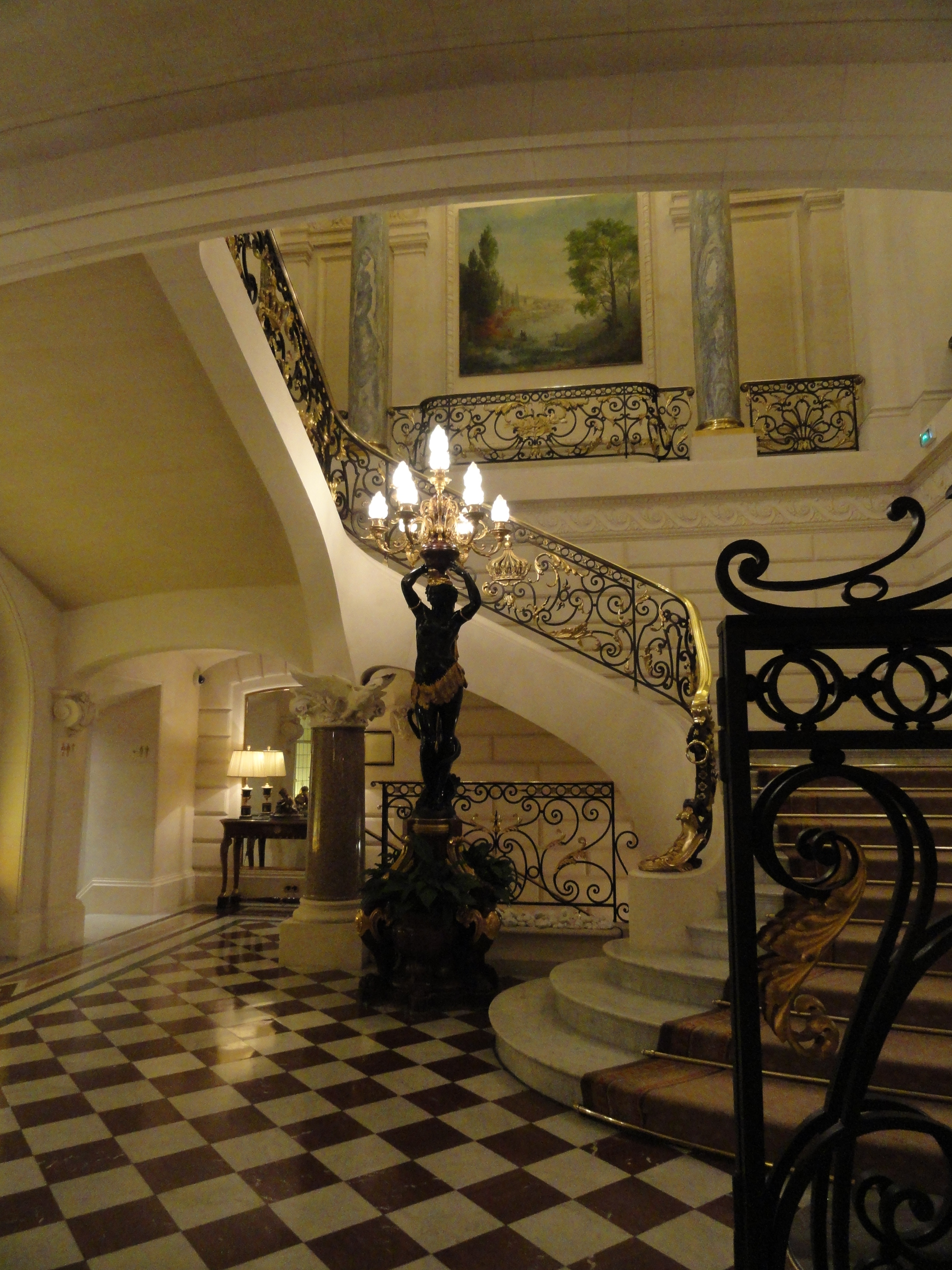 One of the staircase in the Shangri-La hotel in Paris. The hotel was before the town house of Roland Bonaparte